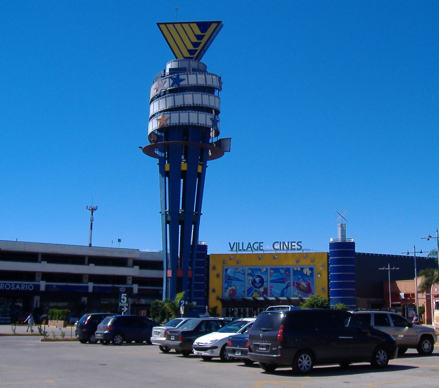 The Village Cinema Complex in Rosario, Argentina, on 5800 Eva Perón Avenue (west of the city). This complex is a venture of the Village Roadshow media company.